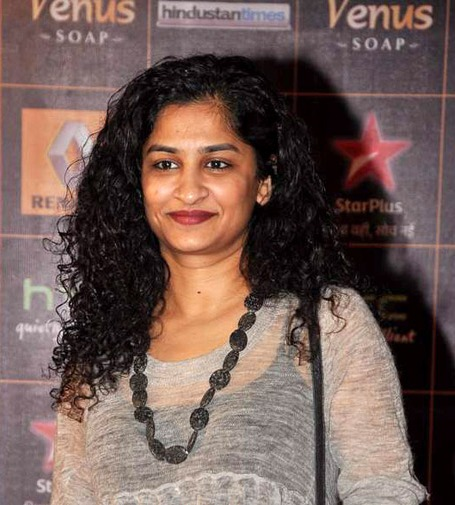 Director Gauri Shinde at the Renault Star Guild Awards 2013.